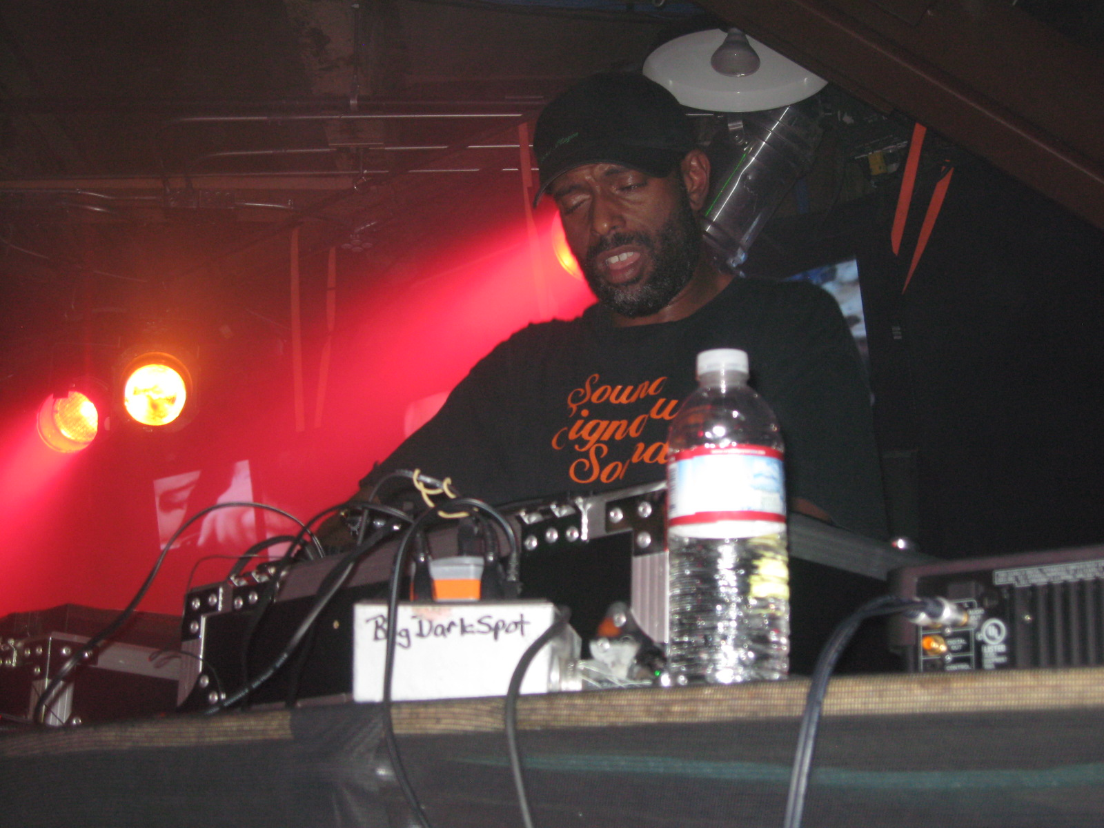 Theo Parrish mixing @ Decibel, Seattle